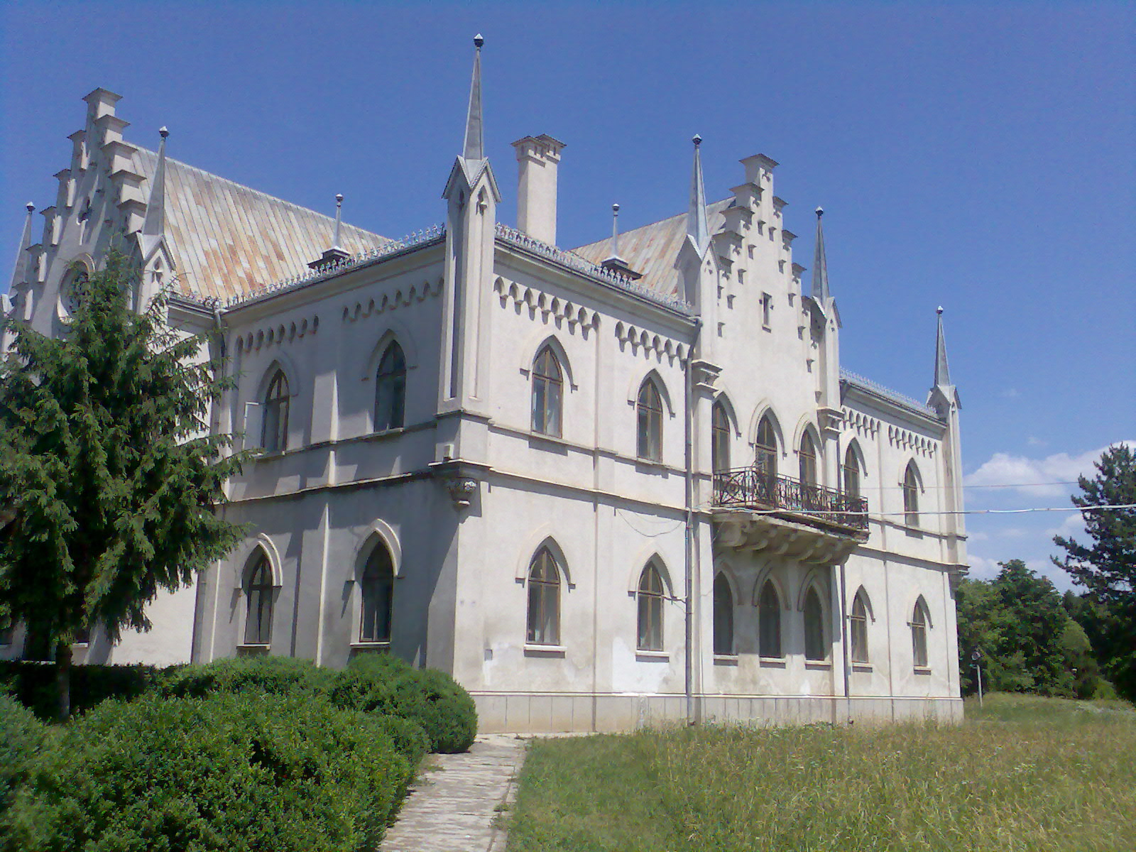 The Al.I. Cuza family Palace in Ruginoasa, Iași County